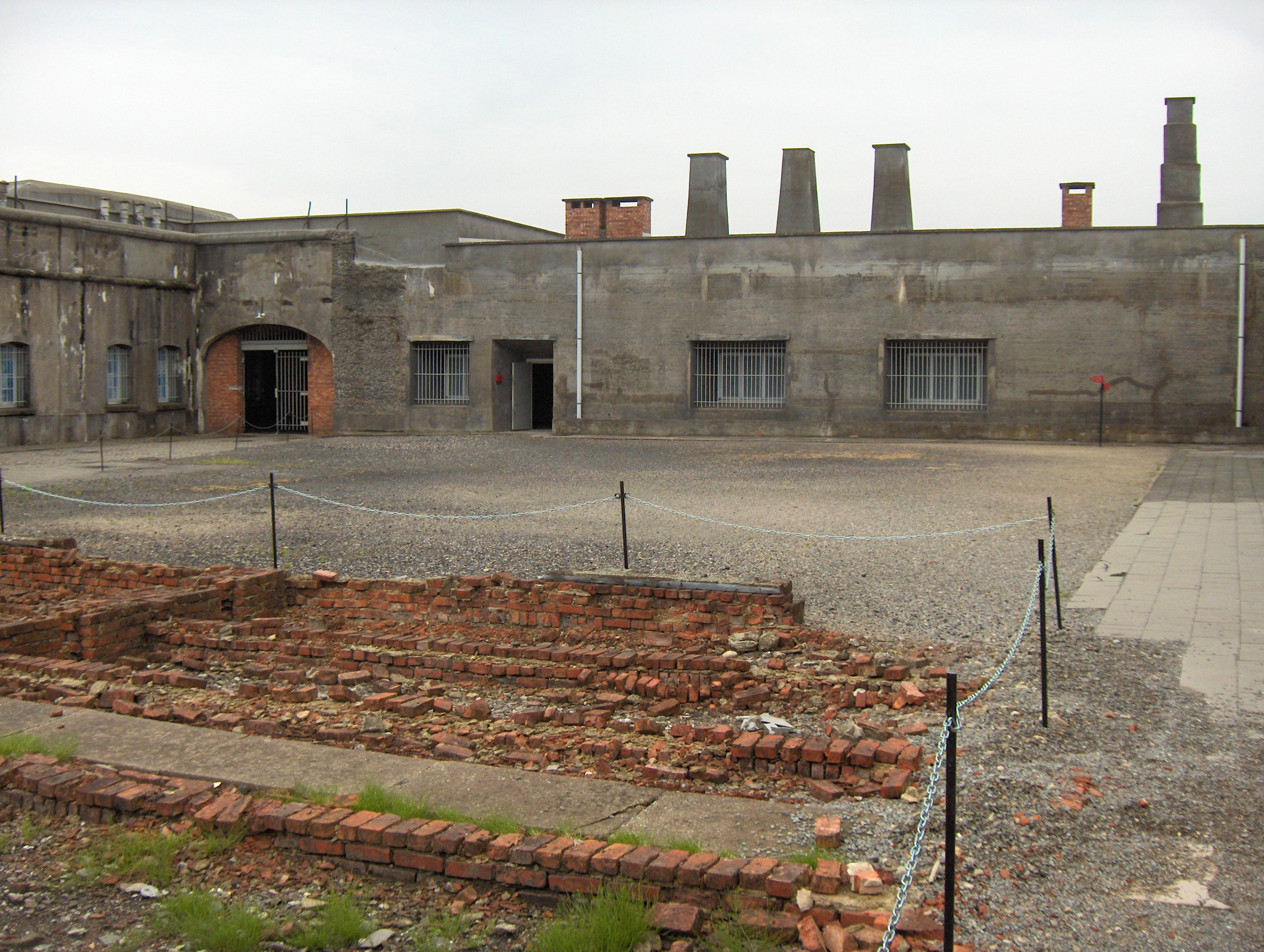 Square for the roll-call; Fort van Breendonk, Belgium